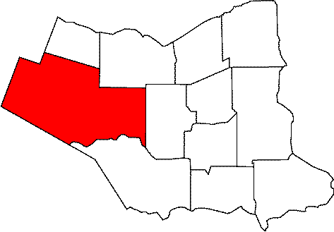 Map of West Lincoln, Ontario